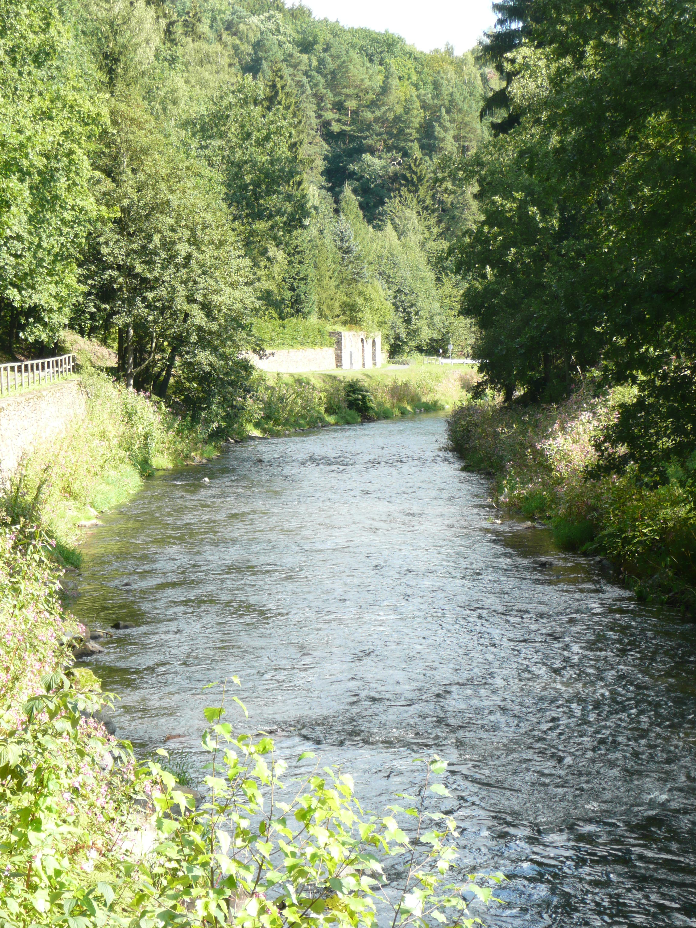 Freiberger Mulde near Großvoigtsberg, Saxony